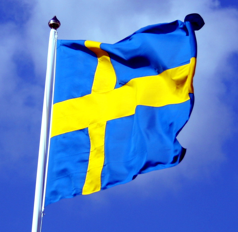 Swedish Flag